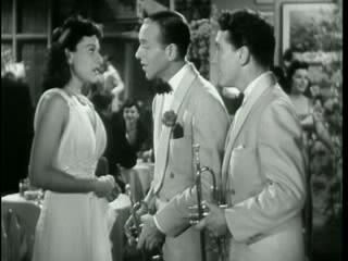 Movie screenshot of Paulette Goddard, Fred Astaire and Burgess Meredith in Second Chorus